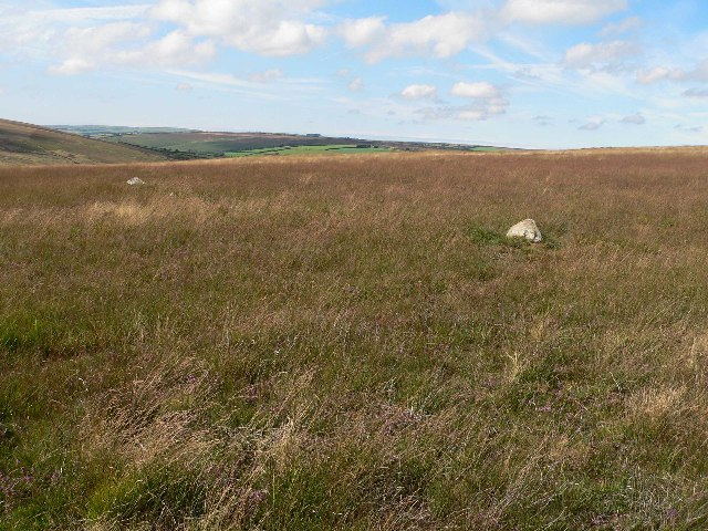 Stone Circle on Withypool Hill. Apparently Bronze Age, with 37 stones.